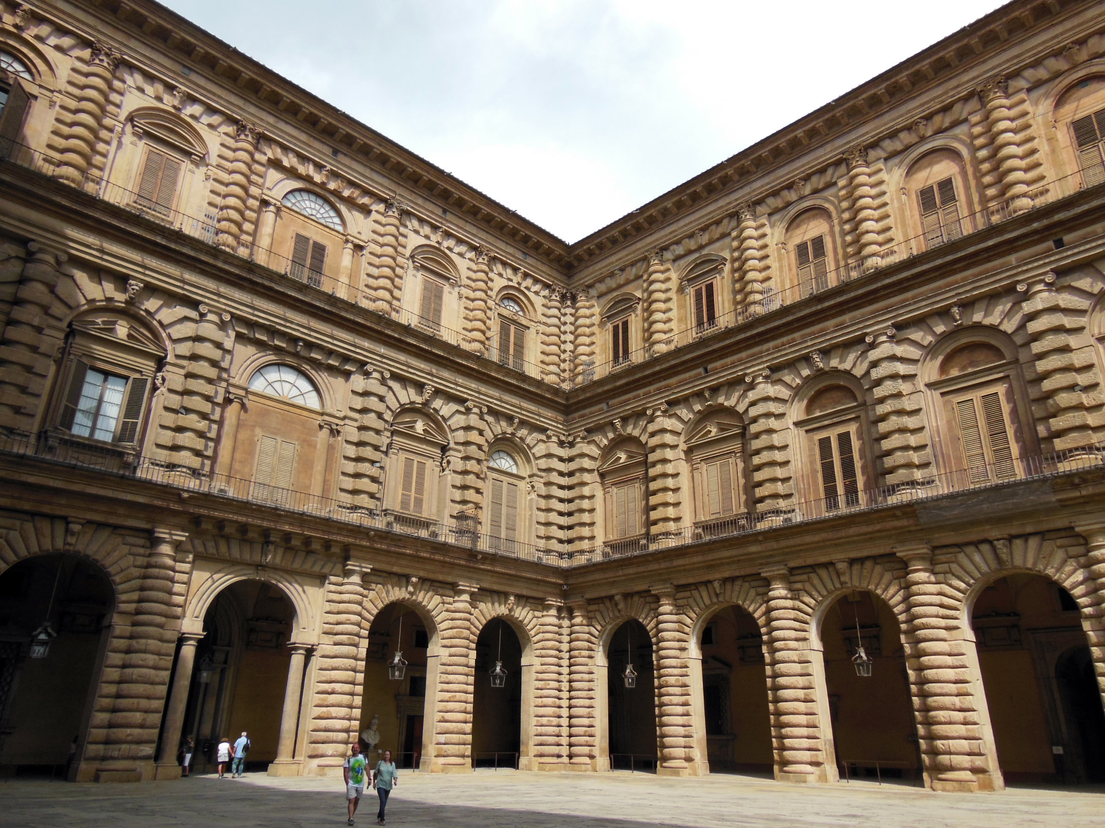 Italy, Tuscany, Florence, Pitti palace, courtyard